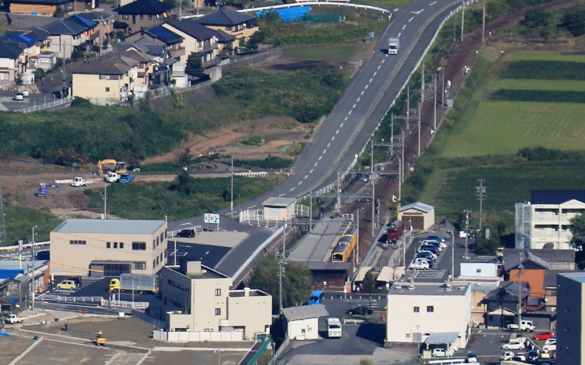 Ageki Station seen from Mount Fujiwara in Suzuka Mountains, Hokuseicho, Inabe, Mie Prefecture, Japan.